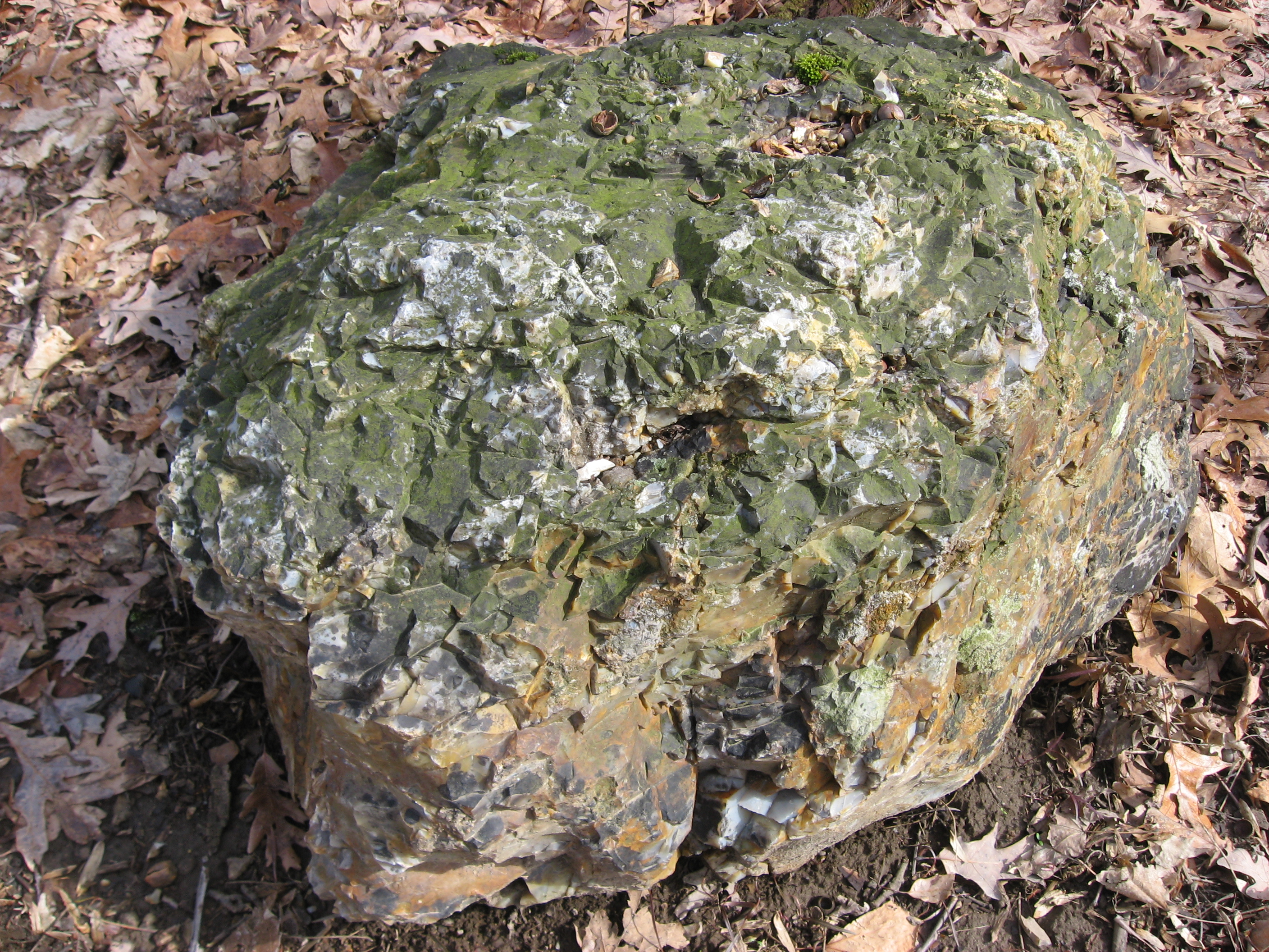 A flint outcrop at the Flint Ridge State Memorial, located north of Brownsville in Hopewell Township, Licking County, Ohio, United States. Mined for flint over many generations, Flint Ridge was the center of trade routes that extended as far northeast as New York and as far west as Kansas. As an archaeological site, Flint Ridge is listed on the National Register of Historic Places.